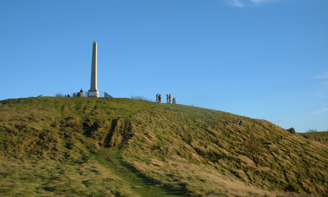 Tandle Hill, Royton, in Greater Manchester, England. Looking southeasterly to the war memorial, toposcope (just to the left of the memorial) and trig pillar that sit on the summit of this popular country park between Oldham and Rochdale.